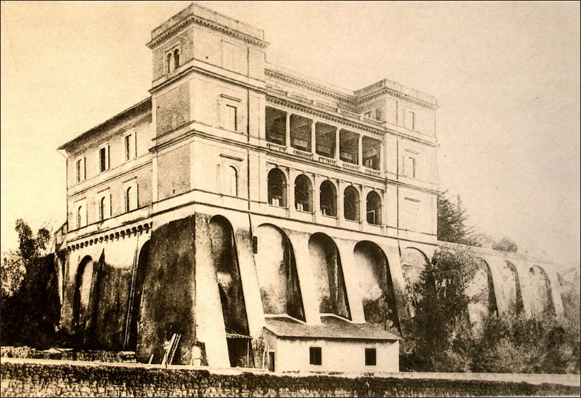 Villa Spithover (ca. 1880) by unknown photographer